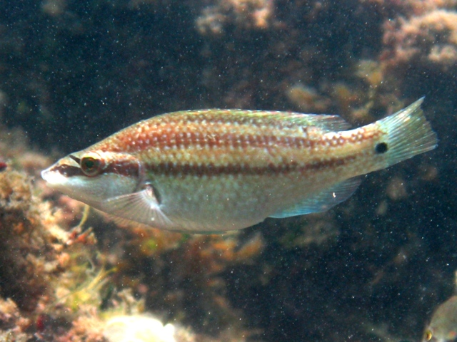 Female Symphodus tinca photographed in Muggia (Italy, northern Adriatic sea). Photo by Roberto Pillon.